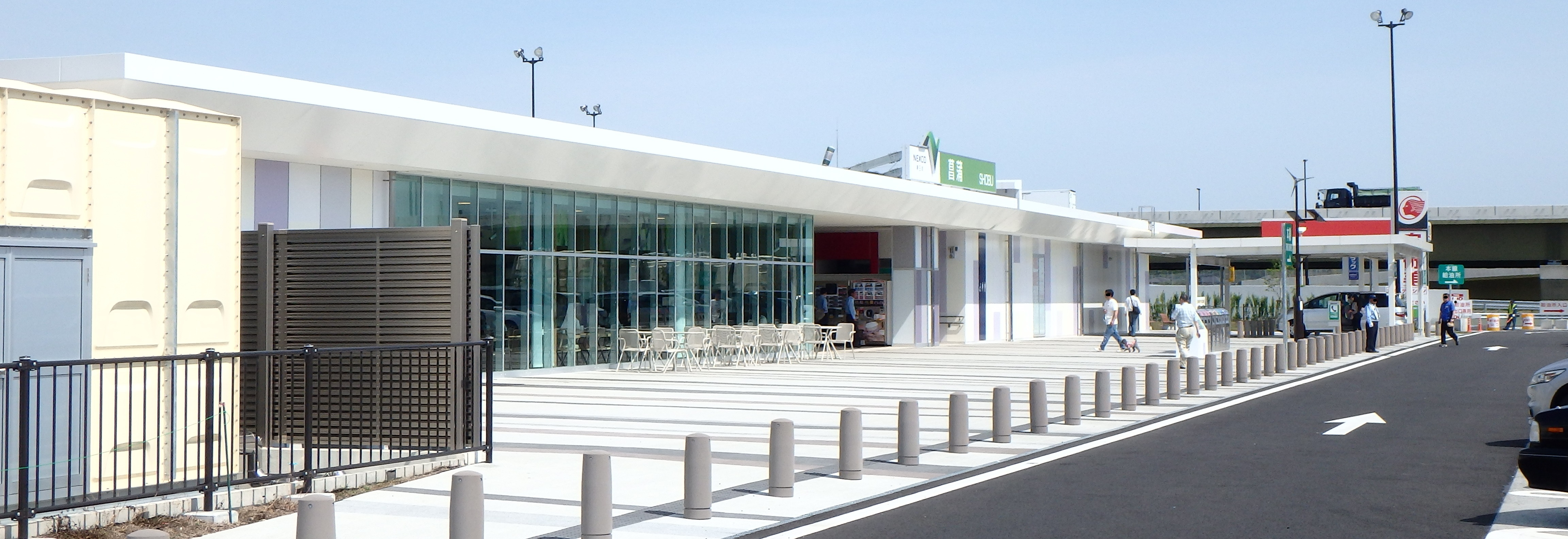 Syōbu Parking Area sotomawari,Saitama Prefecture,Japan